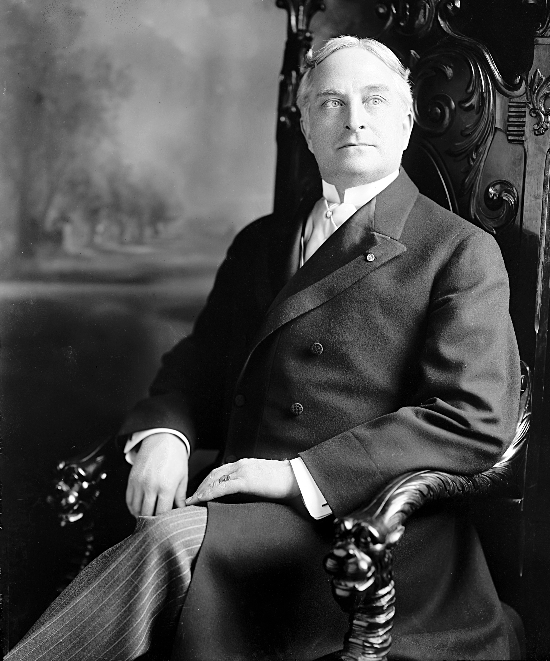 George Alexander Pearre, US Representative from Maryland